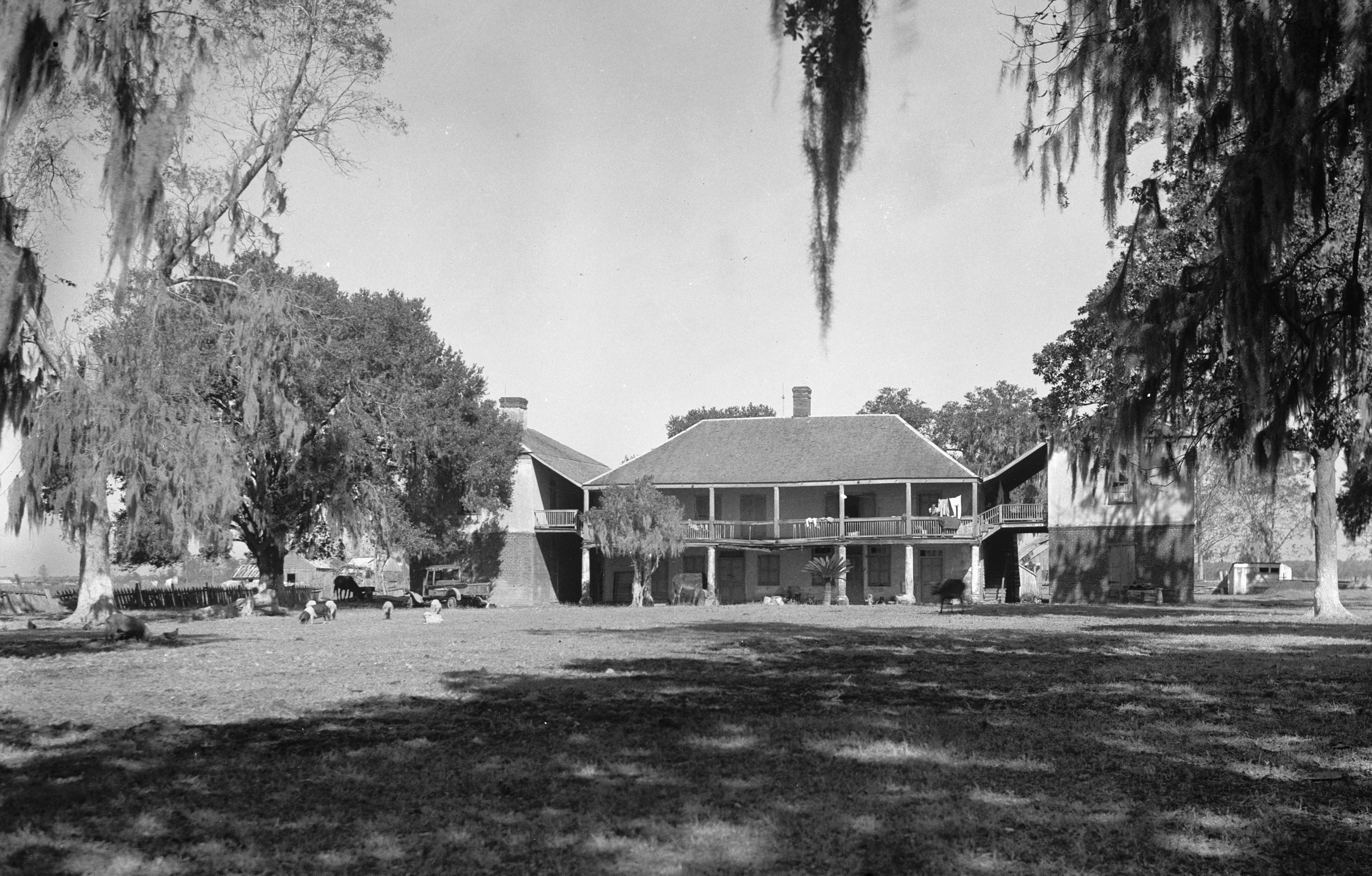 Front of the Ormond Plantation House, located at the junction of Louisiana Highway 48 and Oak Avenue in Destrahan, Louisiana, United States. Built in 1785, it is listed on the National Register of Historic Places.